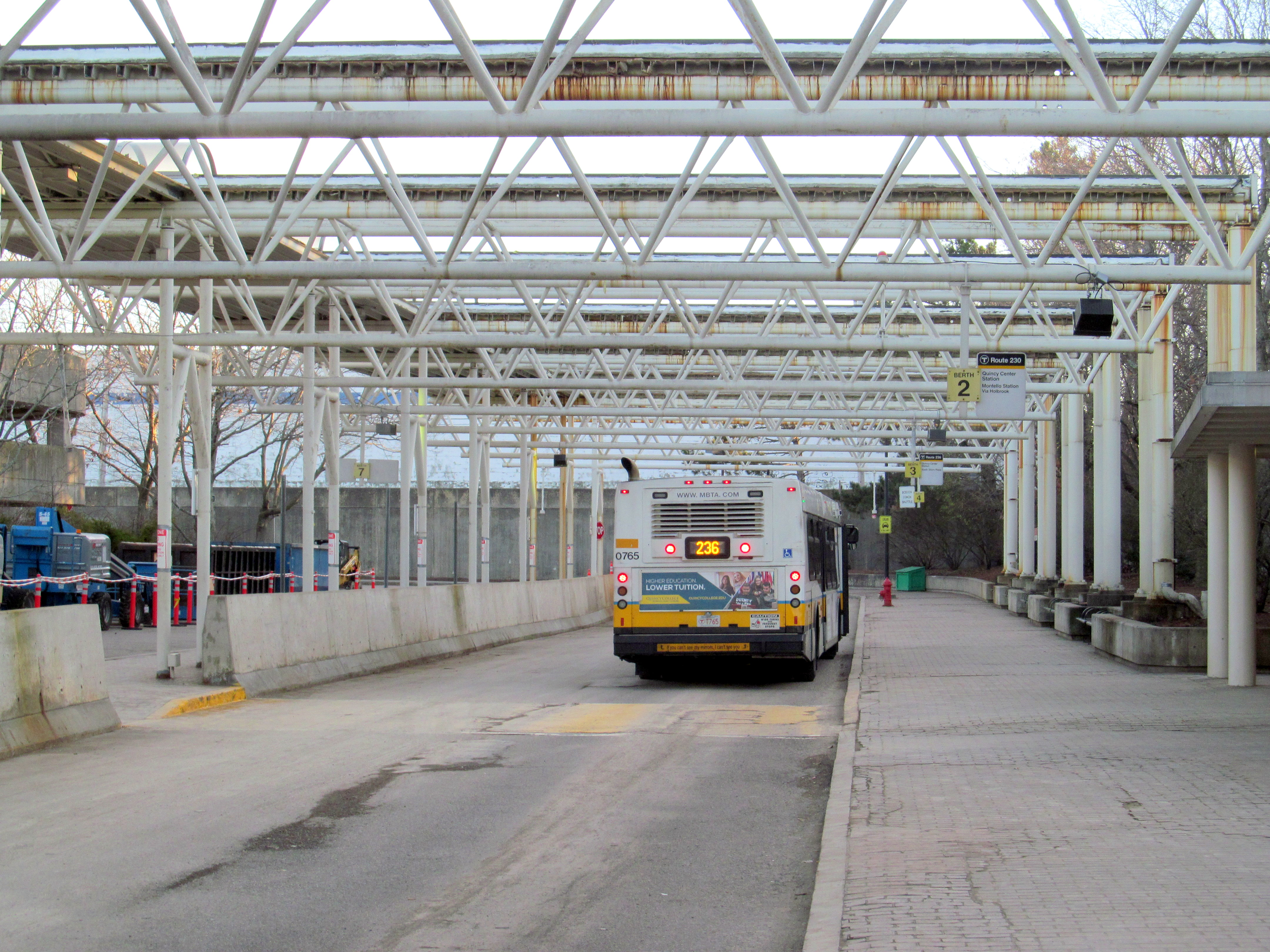 MBTA route 236 bus at Braintree station in December 2015